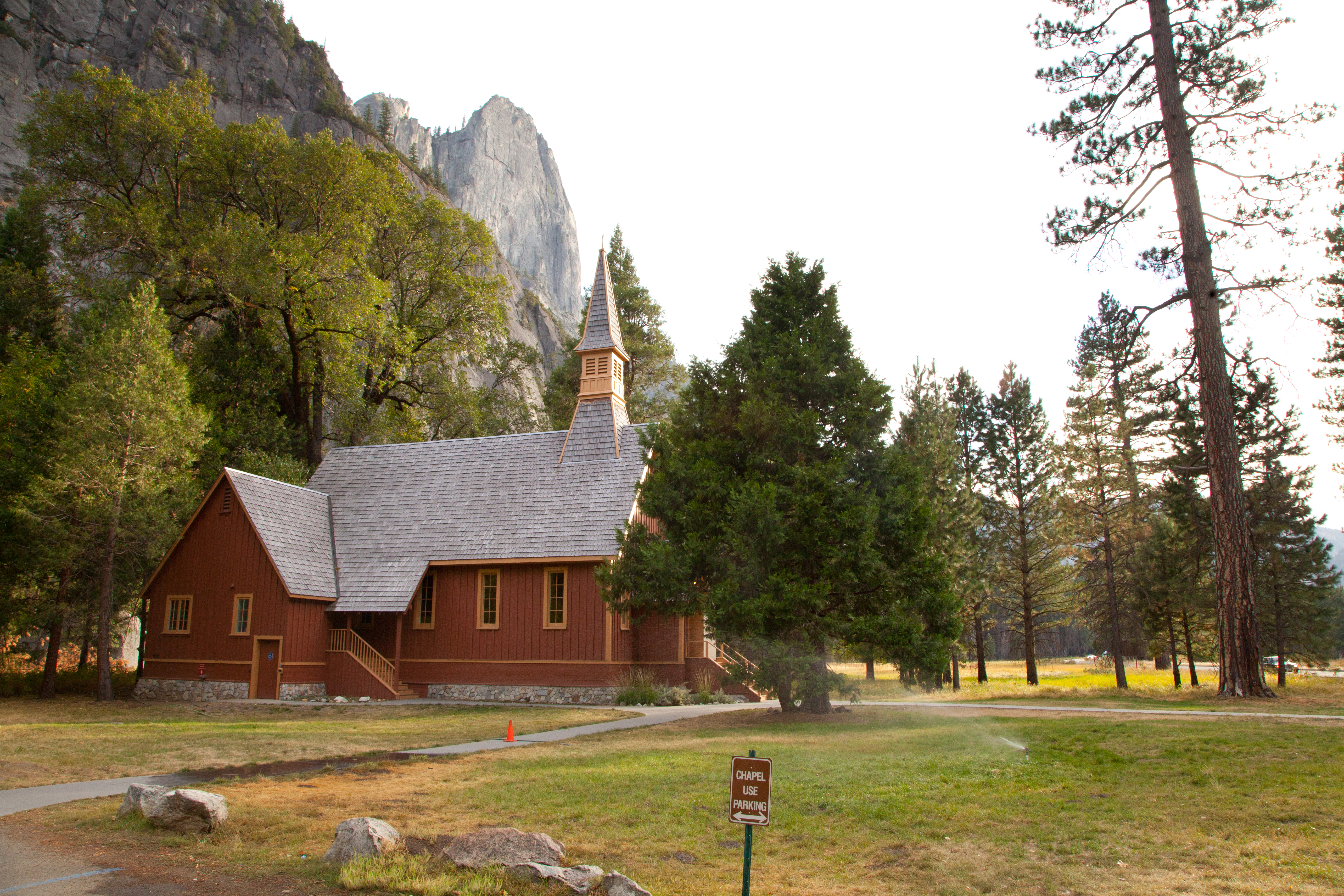 The Yosemite Valley Chapel in Yosemite Valley, California. The 1879 Carpenter Gothic style chapel is the oldest standing structure in Yosemite National Park. A Historic district contributing property on the National Register of Historic Places in Yosemite National Park.